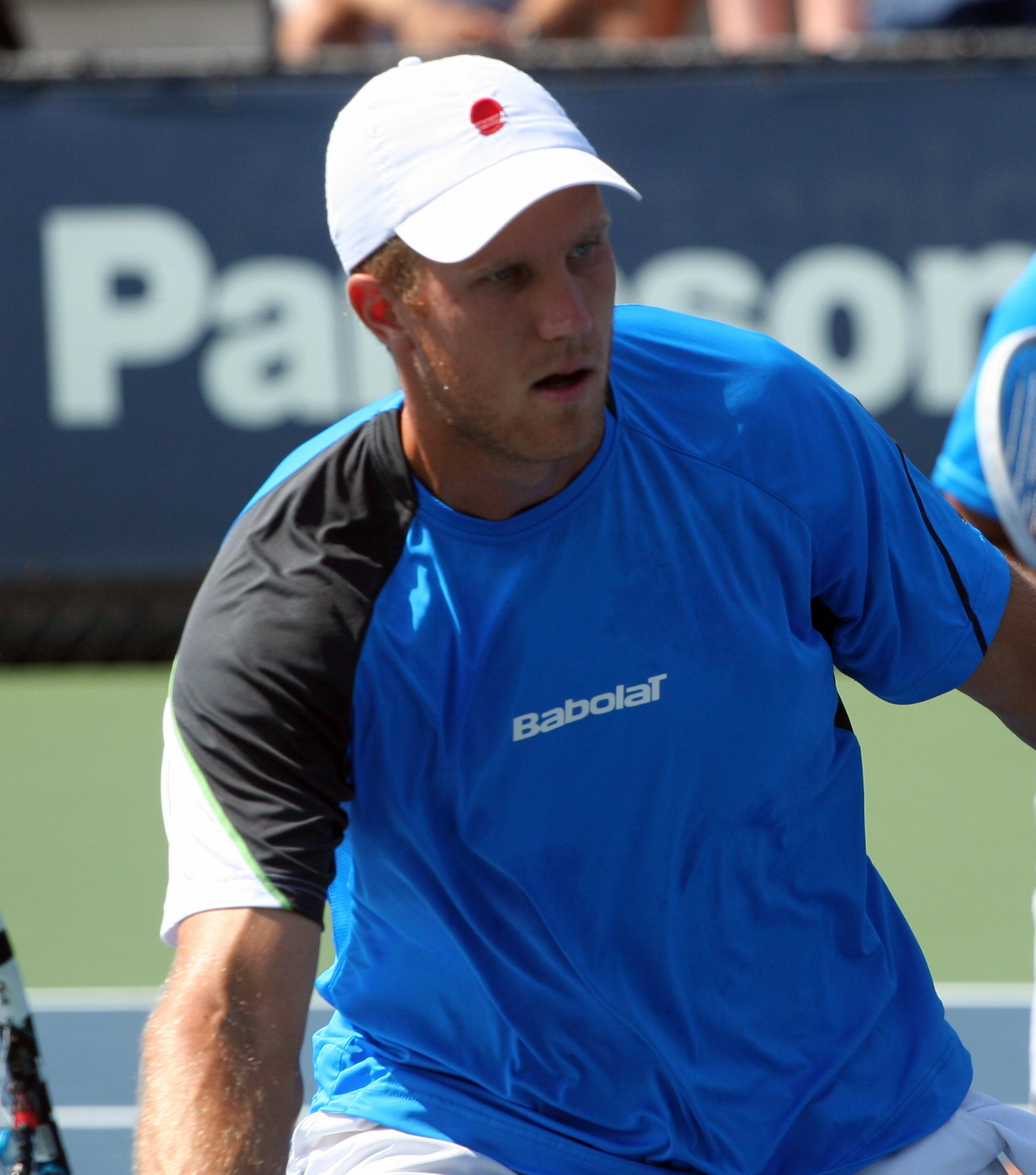 Dominic Inglot at the 2012 US Open Saturday, Sept. 1, 2012